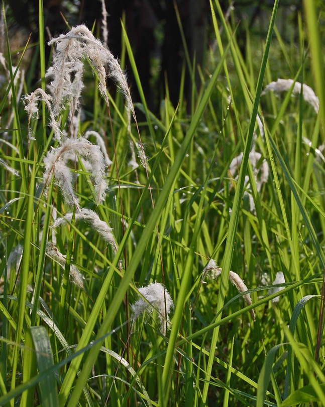 Imperata cylindrica with spikes. Bogor, West Java, Indonesia.